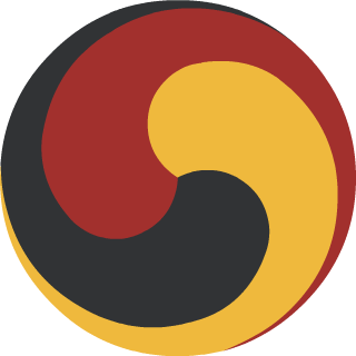 Tibetan Dharmacakra - a symbol in Tibetan Buddhism, the Wheel of Dharma, also called Gankyil. Small PNG file with transparent background. NOTE: Design is actually taken from a Korean drum, and may not accurately reflect a Tibetan symbol.